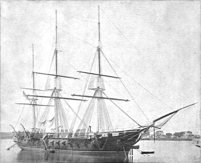 USS Sabine